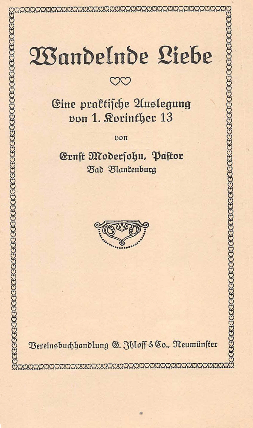 Title page of Modersohn's book "Wandelnde Liebe"